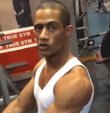 Mohamed Ramadan, in the gym, prepares for a movie